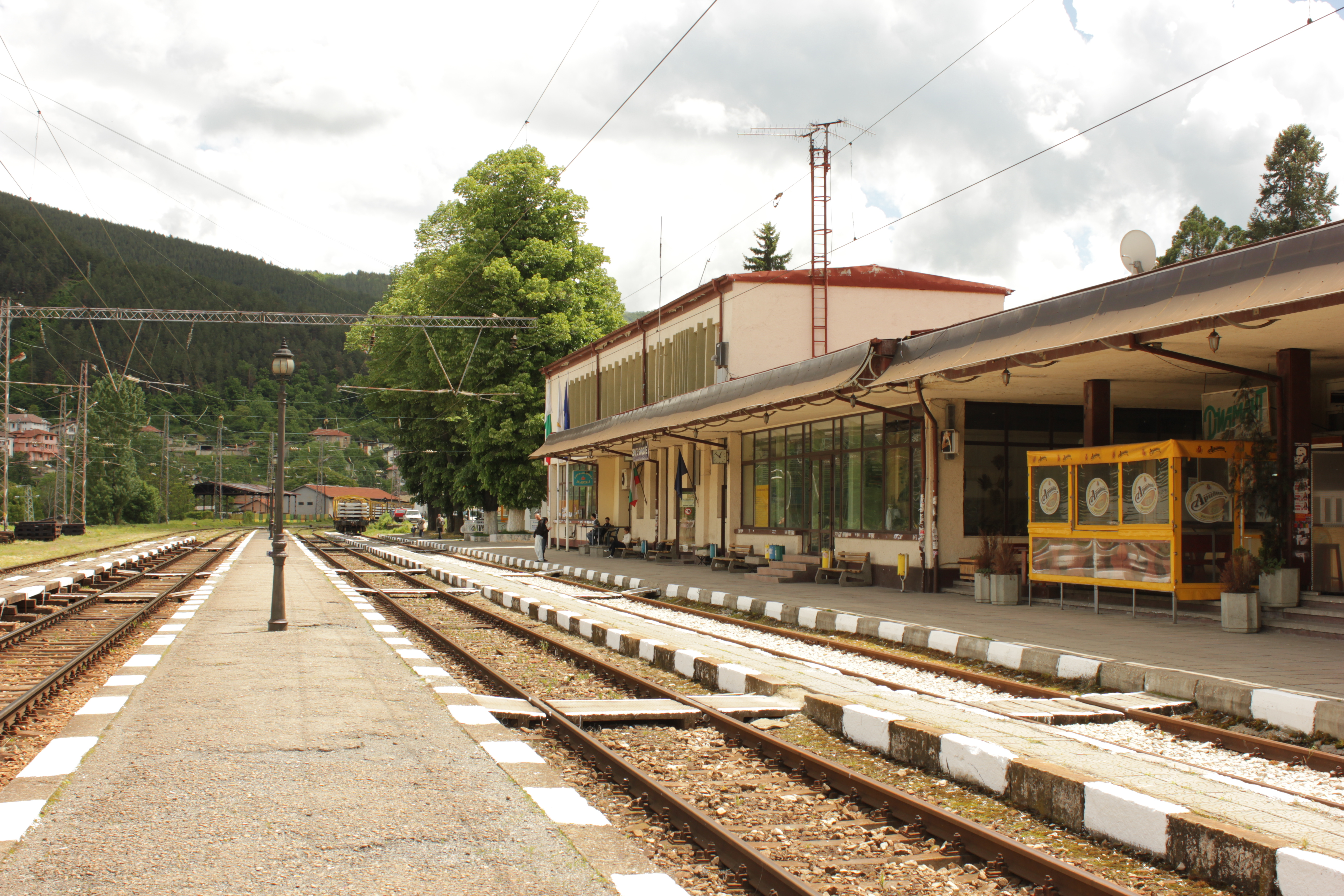 Svoge train station